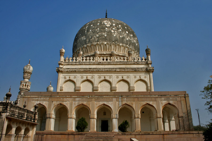 Tomb of Muhammad Qutb Shah in Hyderabad, India.